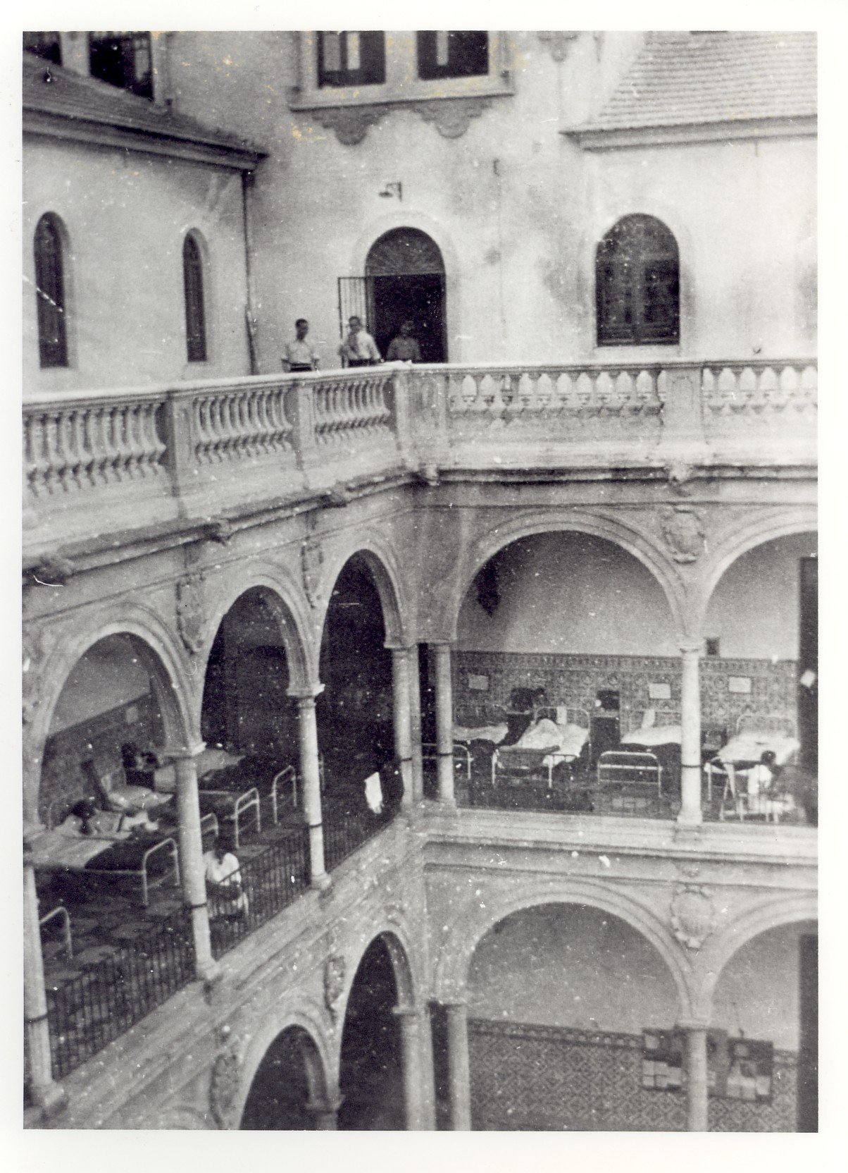 The Hospital Federica Montseny was inaugurated in early 1937 in the city of Murcia (Spain). Its name is dedicated to the Minister of Health, anarchist and member of the CNT and the FAI. This picture was donated by Hans Landauer (Austria), an international brigader in the Spanish Civil War [1] Source: Europeana